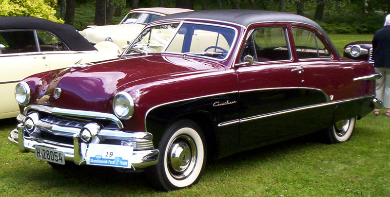 Ford 1951